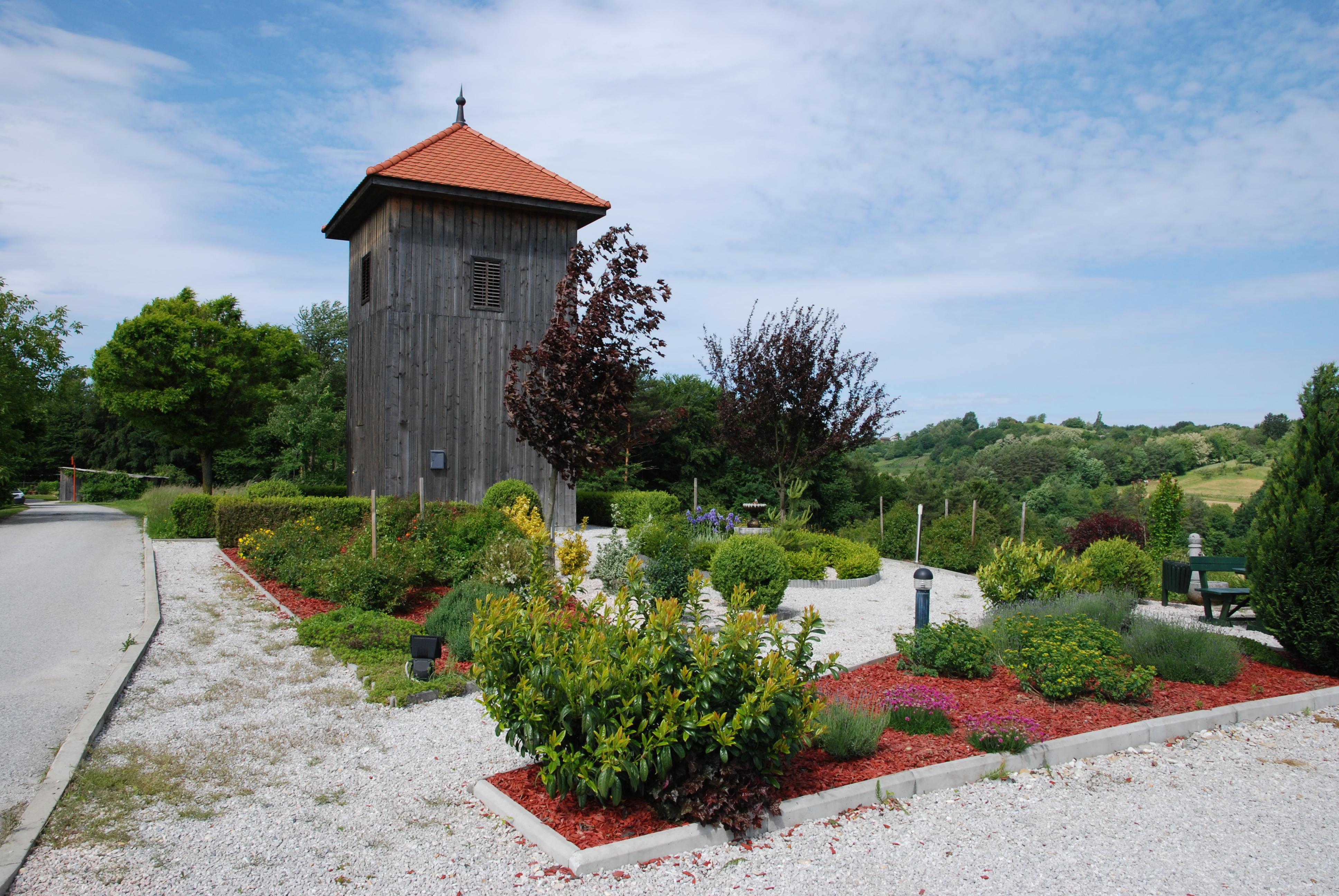 Dolič Kuzma